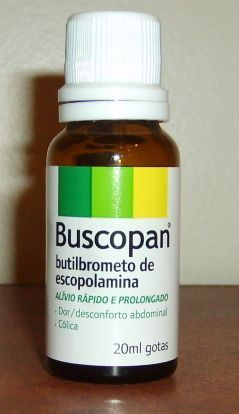 Medicamento Buscopan (Escopolamina). Own work